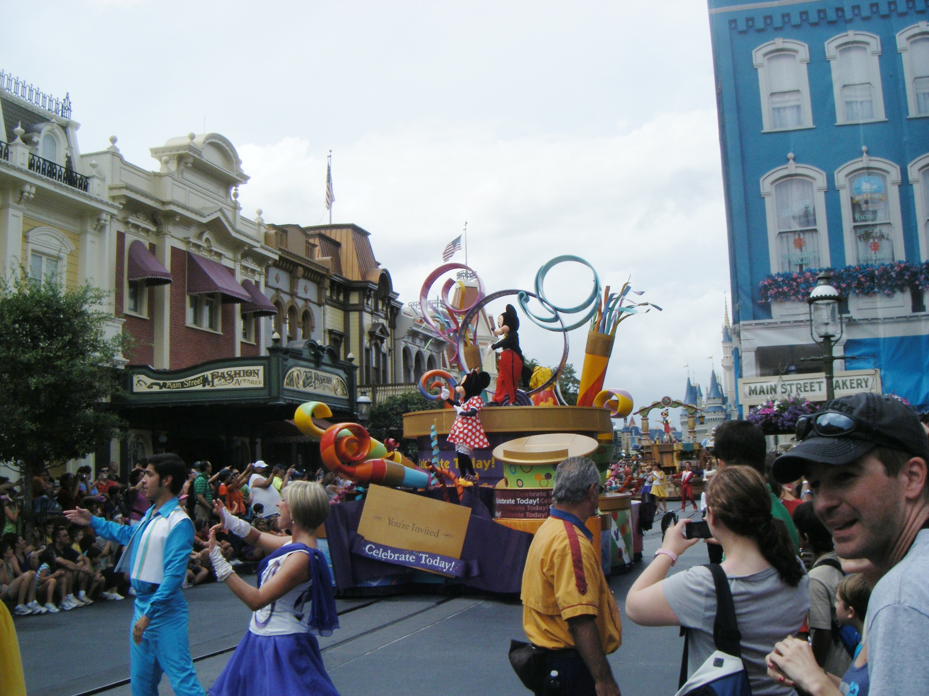 Mickey Mouse and Minnie Mouse in the Celebrate a Dream Come True Parade down Main Street, U.S.A. at the Magic Kingdom at the Walt Disney World Resort in Florida